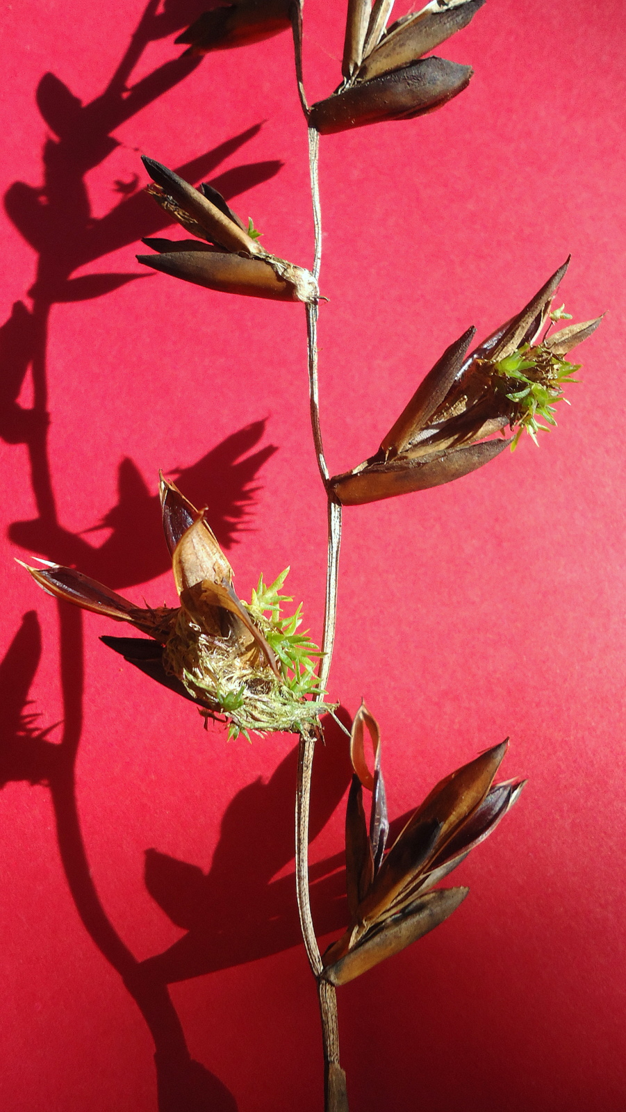 Nascent plantlets within old dried fruit.